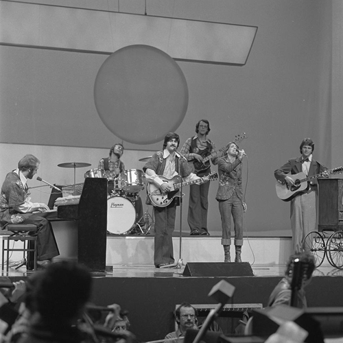 Peter, Sue & Marc at a rehearsal for the Eurovision Song Contest 1976.